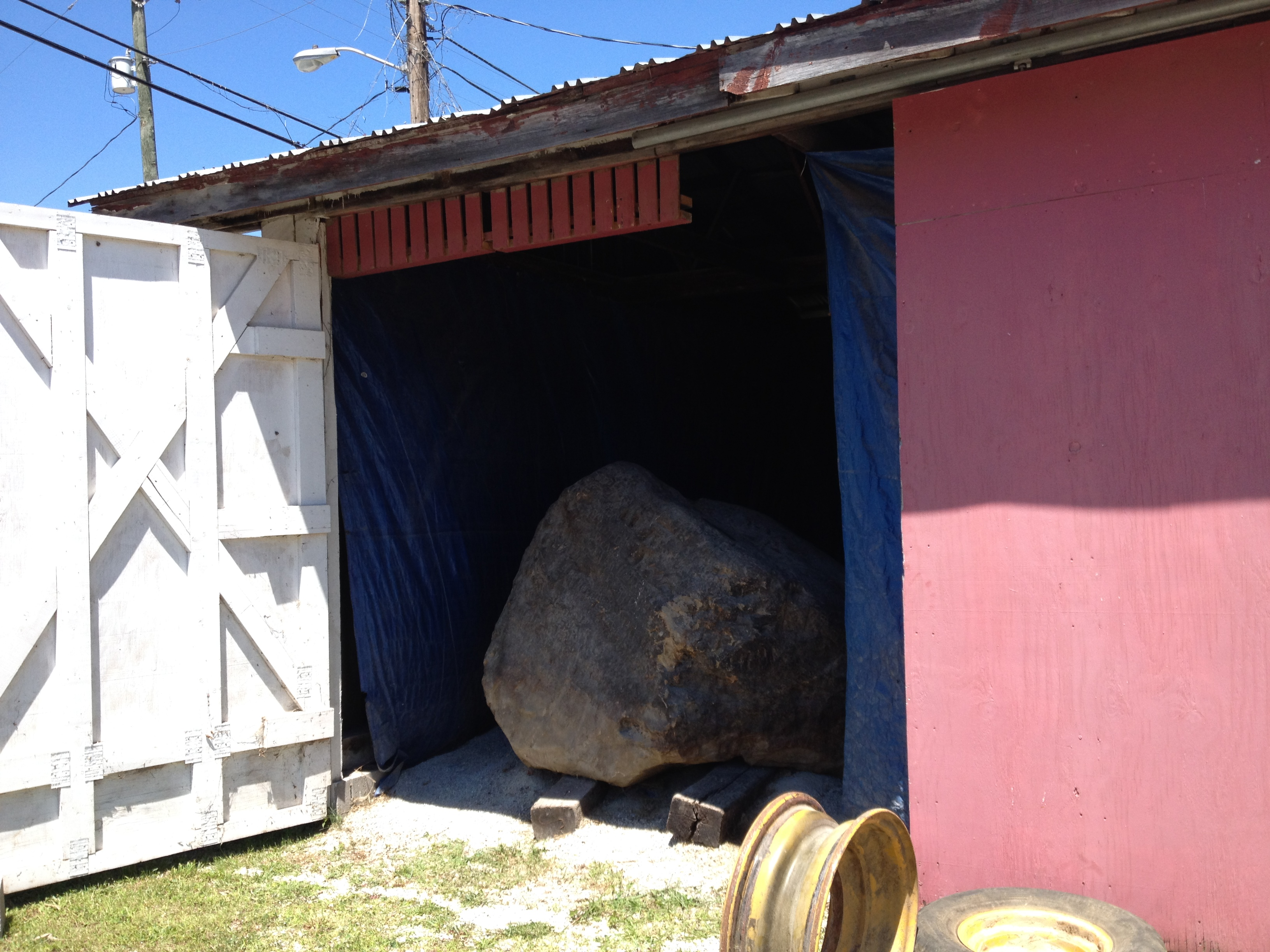 Indian Head Rock stored in outbuilding. Greenup County highway maintenance garage. 7/25/17.